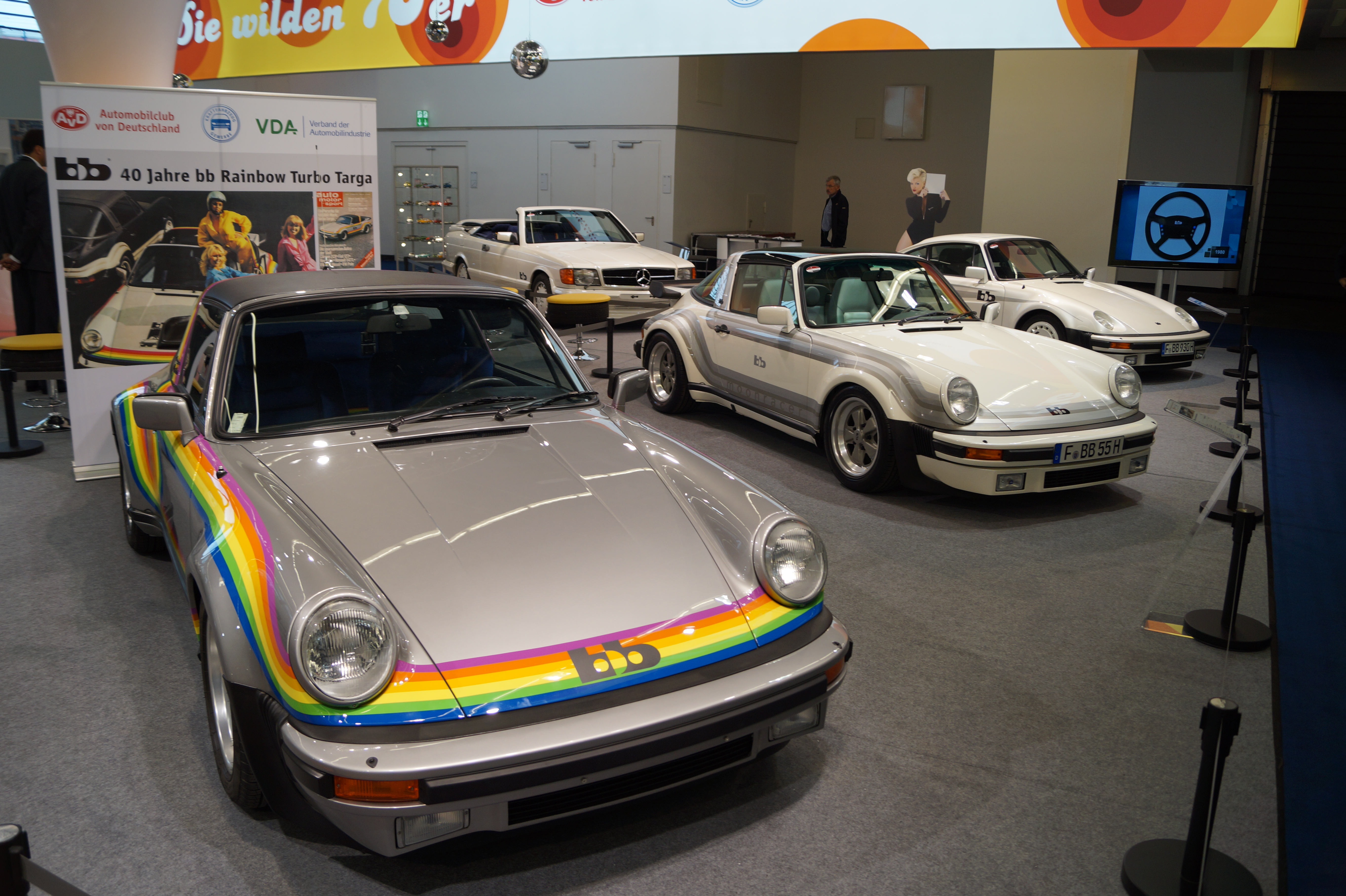 'bb' at IAA 2017